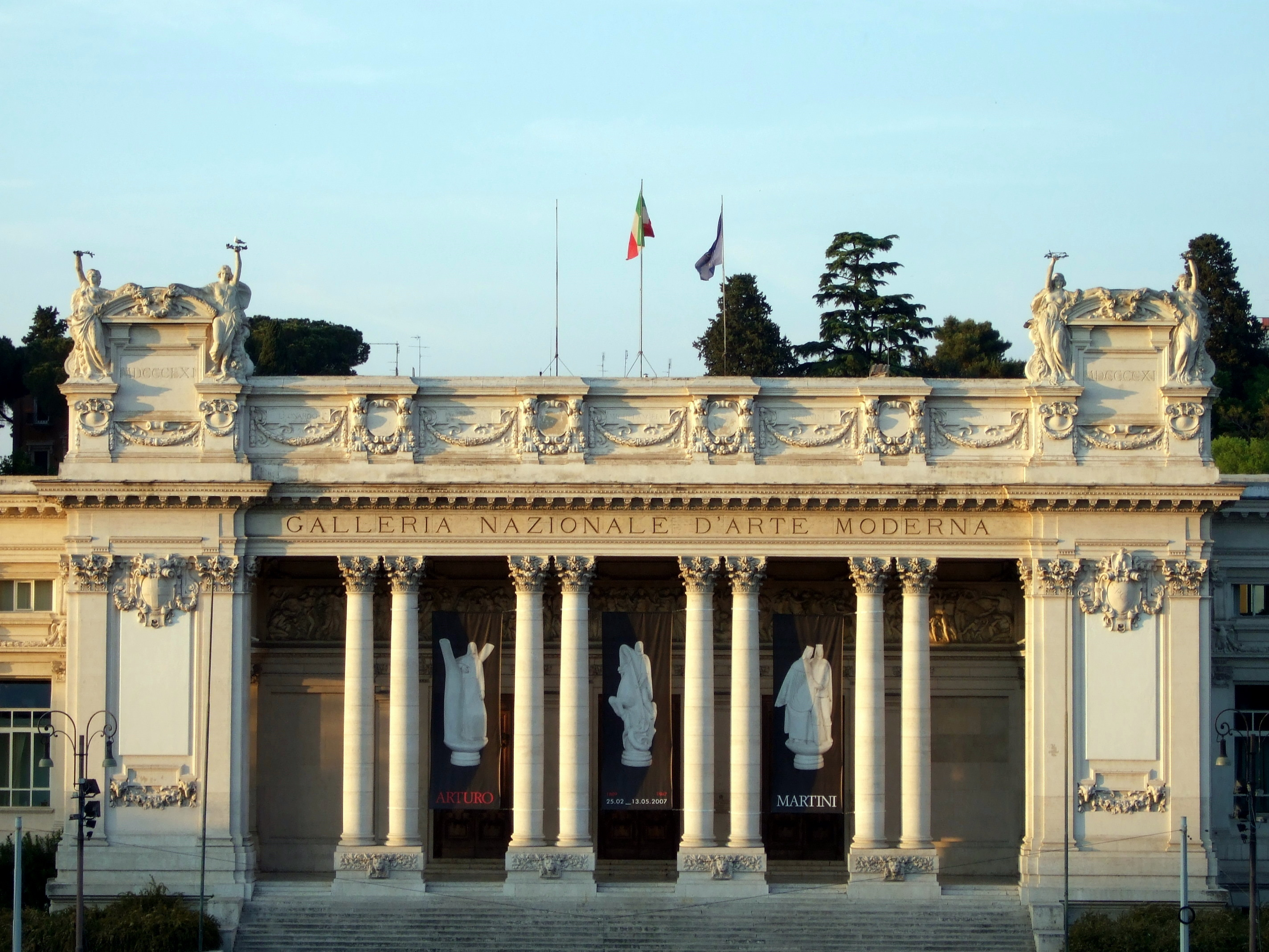 Galleria Nazionale d'Arte Moderna in Rome, Italy